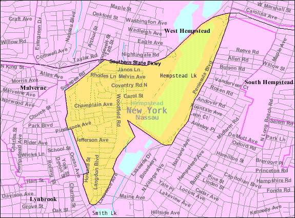 U.S. Census 2000 reference map for Lakeview, New York